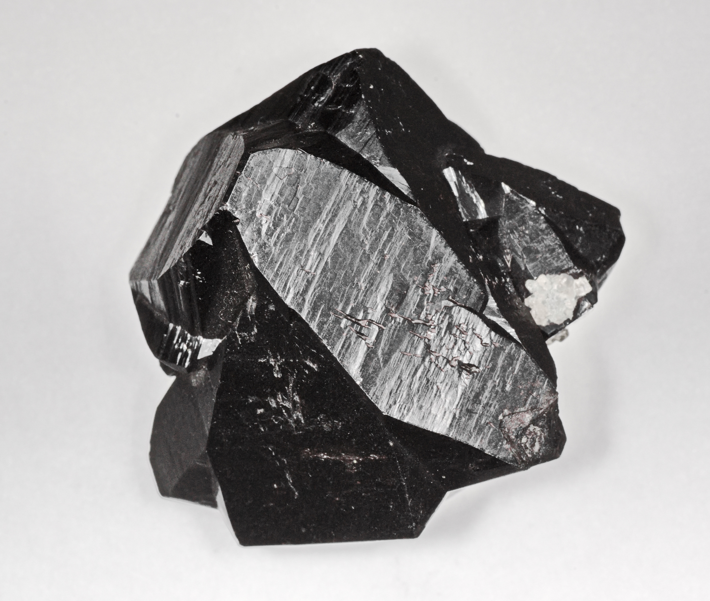 Cassiterite – Krásno, Karlovy Vary Region, Czech Republic